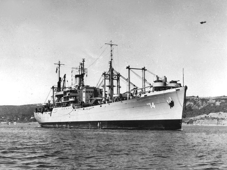 The U.S. Navy attack cargo ship USS Oberon (AKA-14) circa the late 1940s or early 1950s, probably while entering San Diego Harbor, California (USA). Note the Douglas AD Skyraider early warning aircraft in the background.